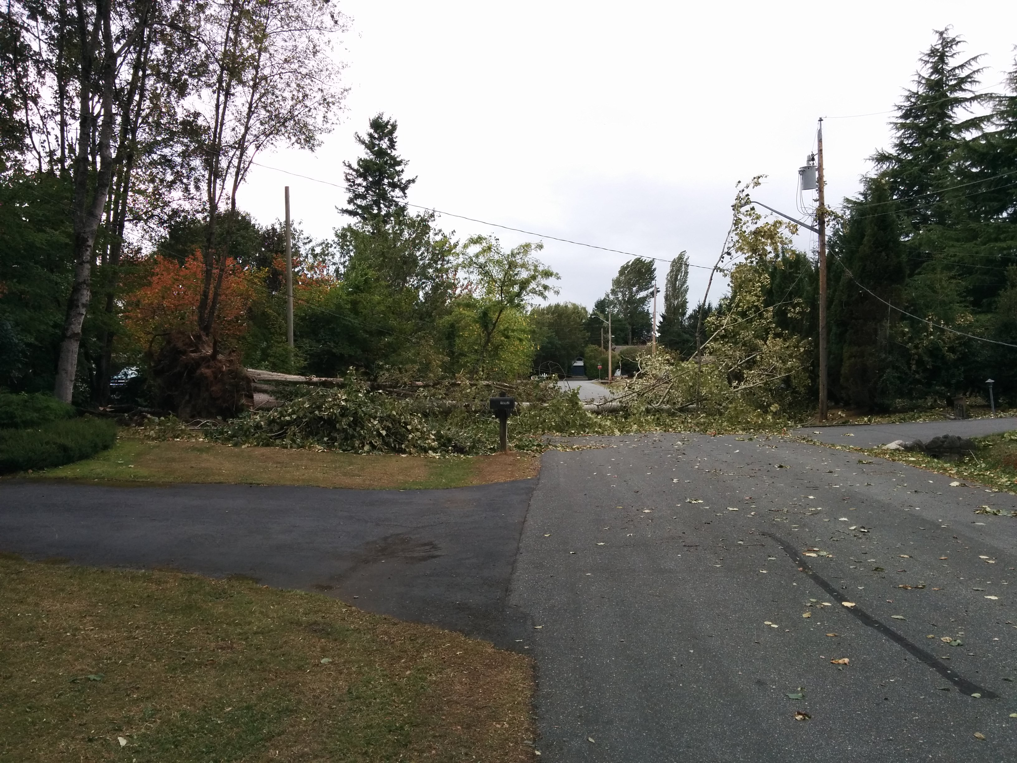 Downed power lines in Grandview Heights neighbourhood of Surrey, British Columbia. This was a result of a powerful windstorm that hit the South Coast of British Columbia on August 29–30, 2015.